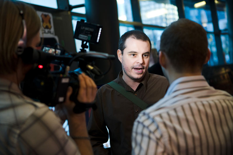 Clint Hocking taking a video interview at Game Design Expo 2009 in Vancouver, British Columbia.